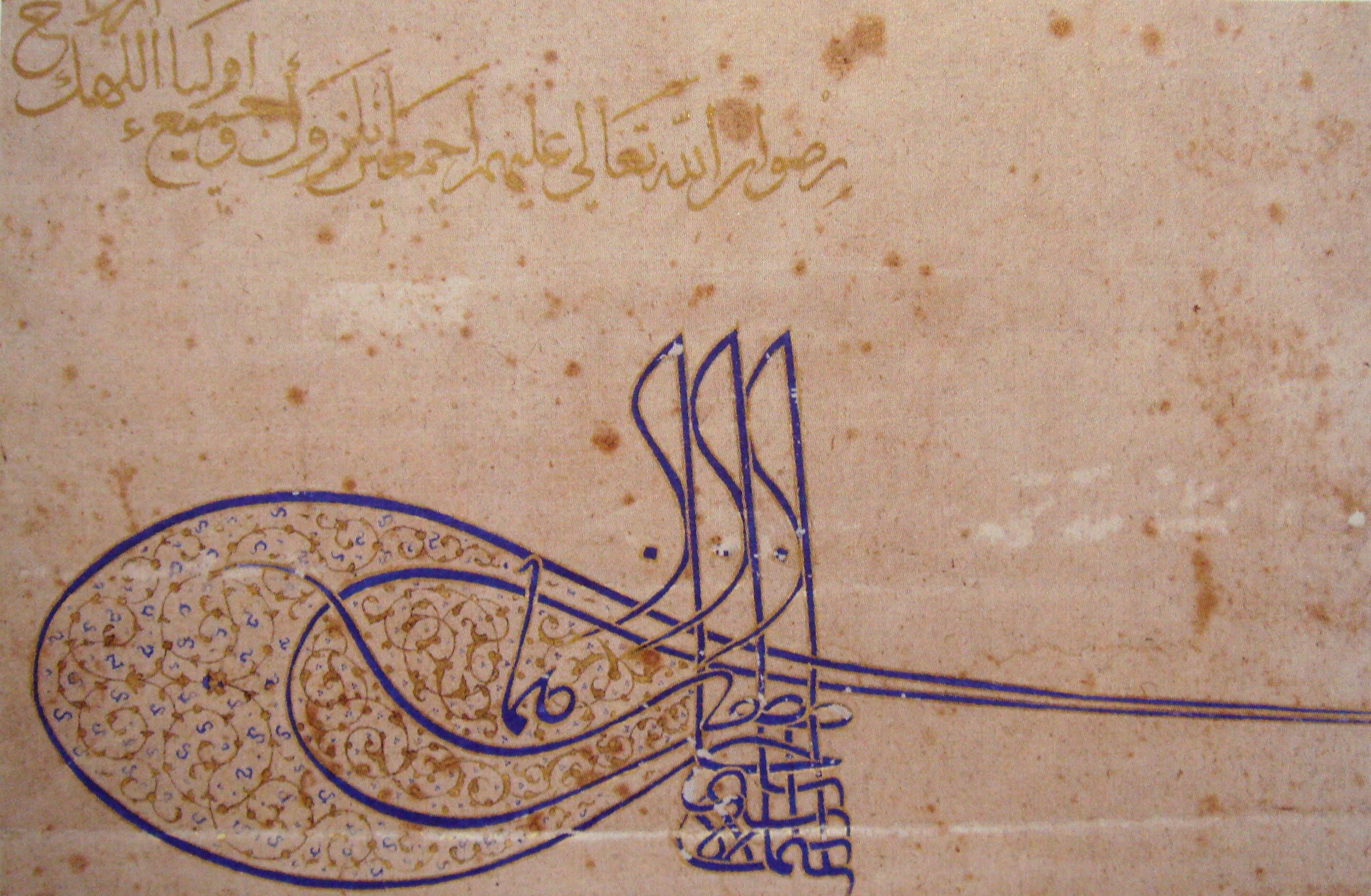 Letter of Suleyman I to Francis I regarding the protection of Christians in his states, monogram